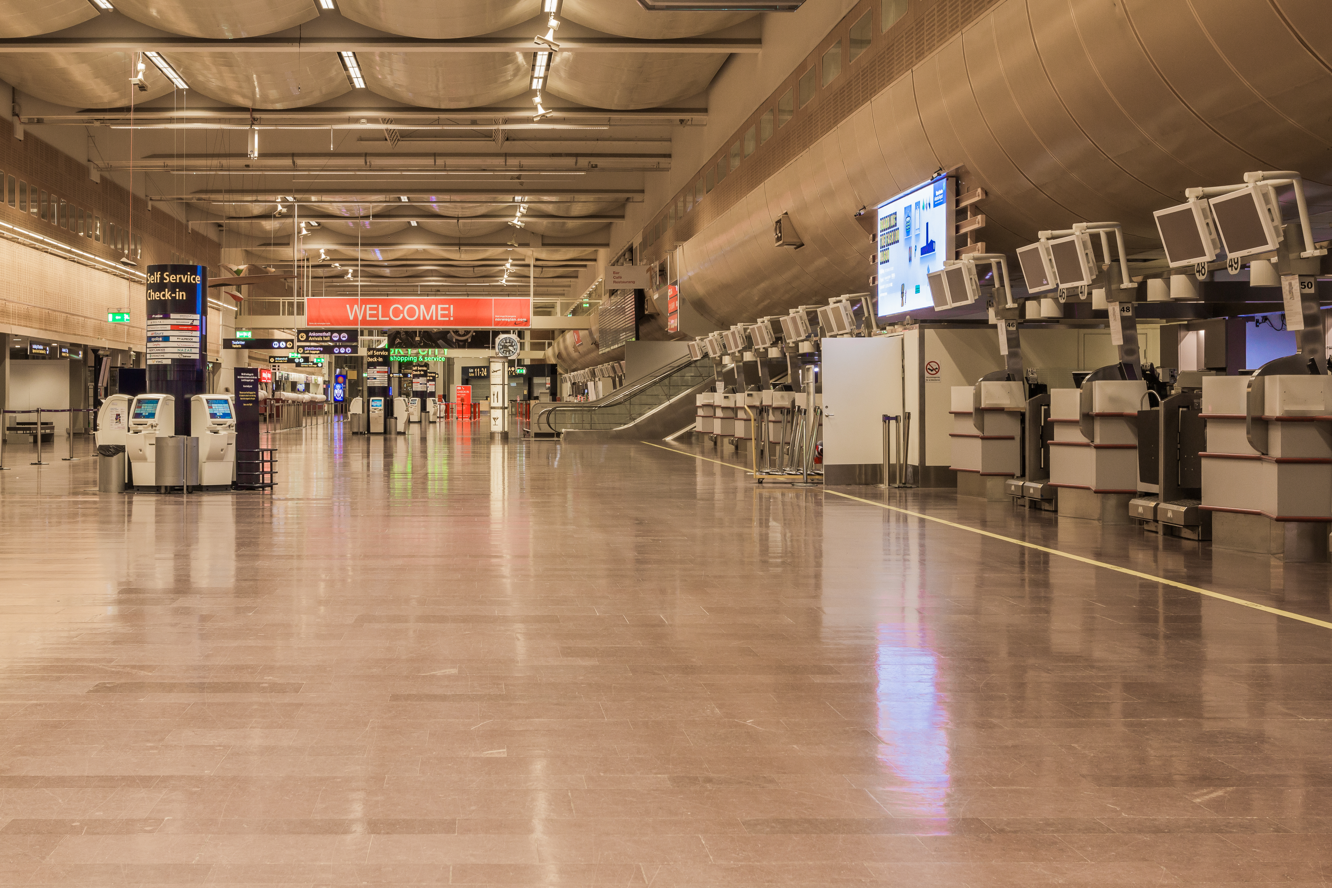 Stockholm-Arlanda Airport Terminal 5, departures